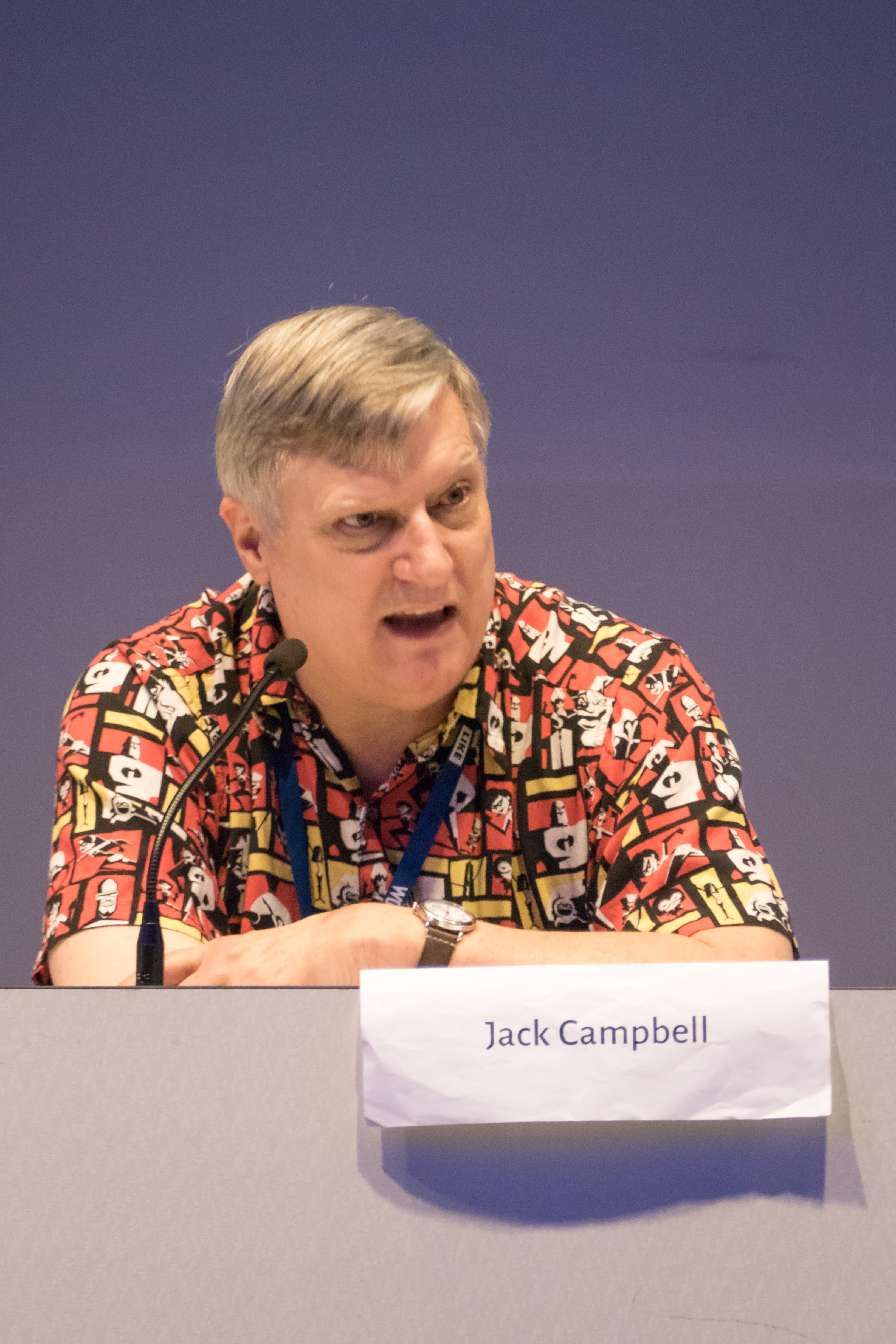 World Science Fiction Convention in Helsinki, 2017. Mighty Space Fleets of War. Jack Campbell